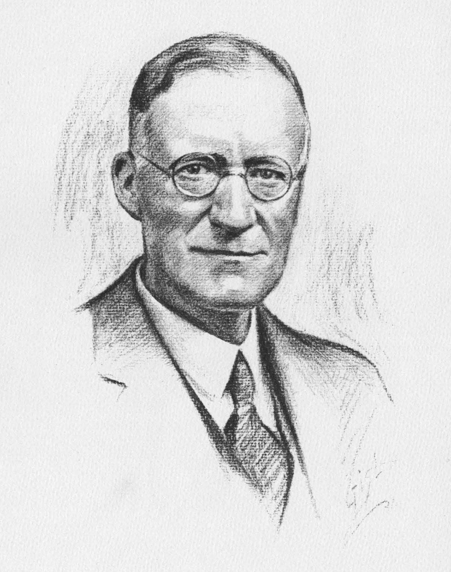 1931 sketch of California Institute of Technology Professor Frederick Leslie Ransome